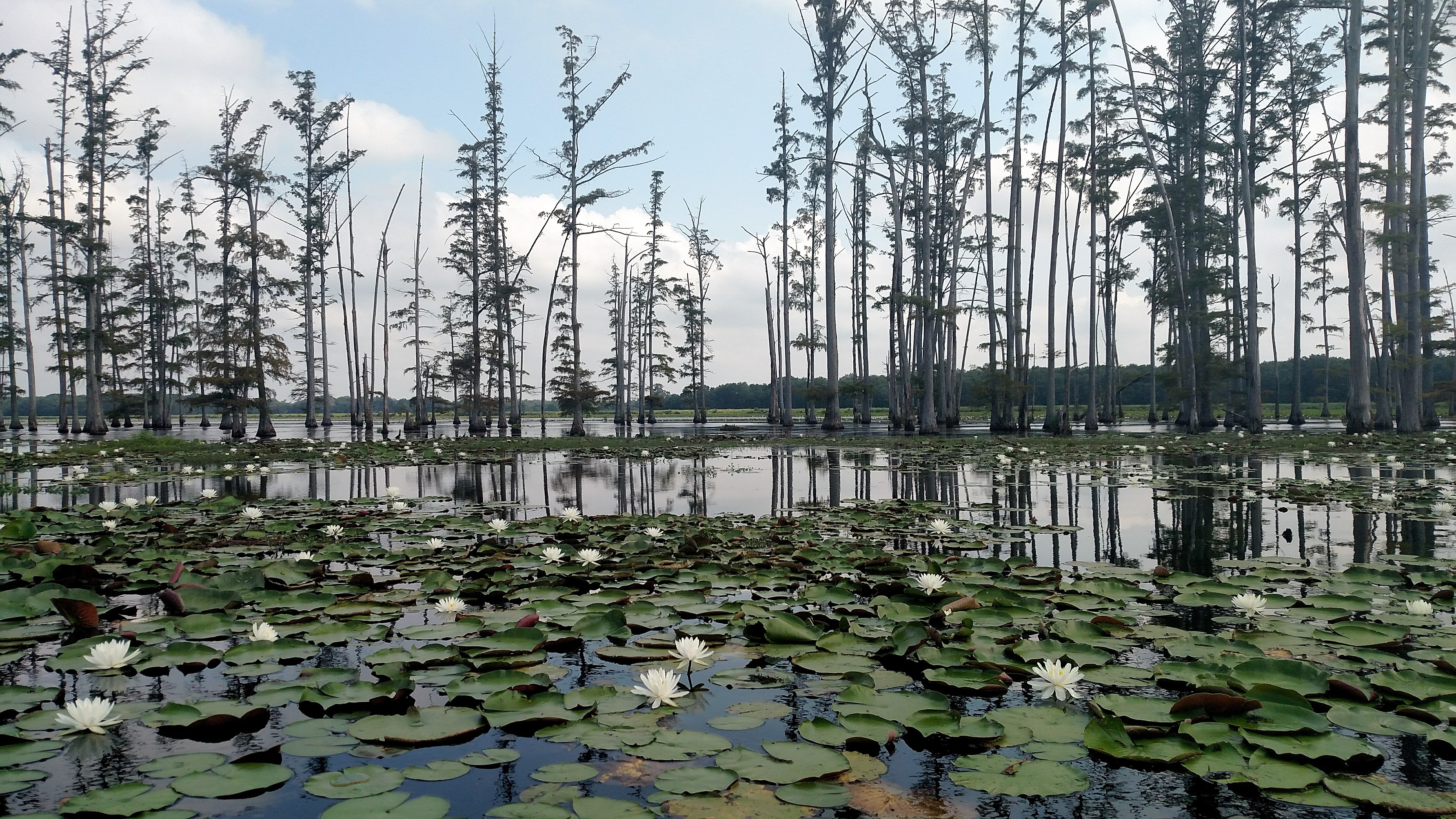 Lily pads and cypress trees on Cane Creek Lake in the park